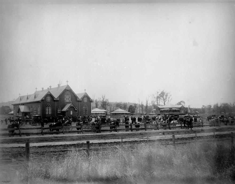 St Brigid's Church, Rosewood, 1910 St Brigid's Catholic Church, Matthew Street Rosewood, (in the Ipswich district of Queensland), was blessed and dedicated by Archbishop Duhig while he was Bishop of Rockhampton. (Description supplied with photograph) In this image, a well-dressed crowd is assembled in front of the church. Various buggies and other carriages are stationed around the grounds. This large elaborate wooden church was built in 1909-1910 and replaced an earlier, smaller St Brigid's Church. It was designed by Reverend A Horan of the Ipswich parish and built under the supervision of builder and contractor, RJ Murphy. The foundations of the second church were blessed on 13 December 1908 and the building was opened on 13 February 1910 by Bishop Duhig. Rosewood was the first country place in which, as a priest, Bishop Duhig had celebrated Mass.